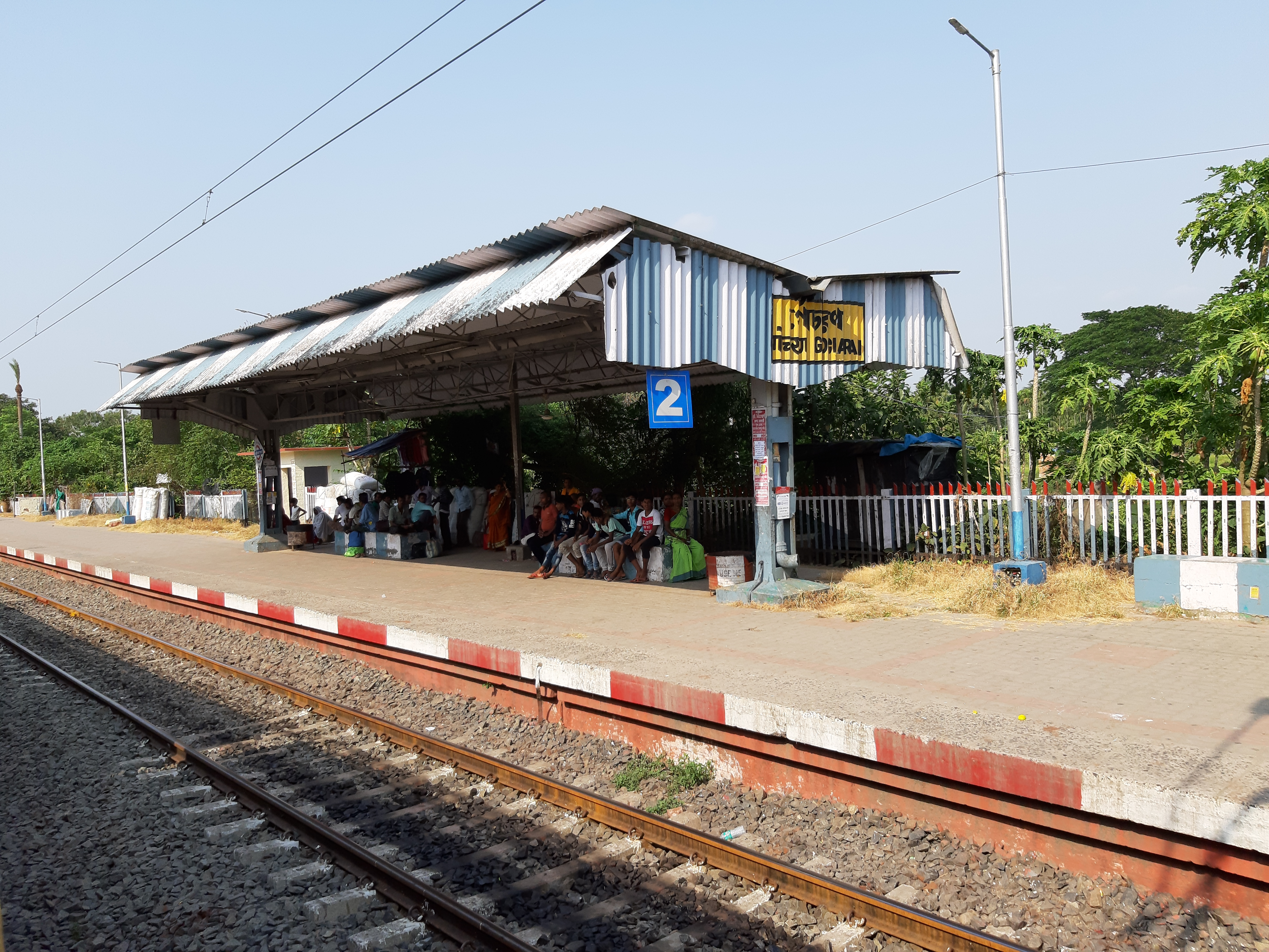 Railway stations of Sealdah south.Baruipur to Laxmikantapur South 24 parganas,West Bengal